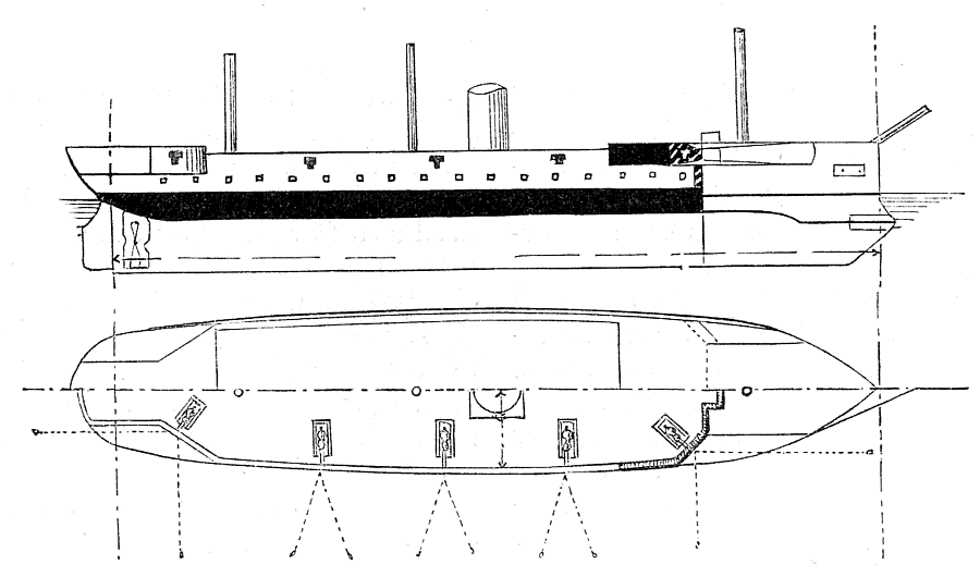 Diagrams depicting right elevation and deck plan of British armoured cruiser HMS Shannon.